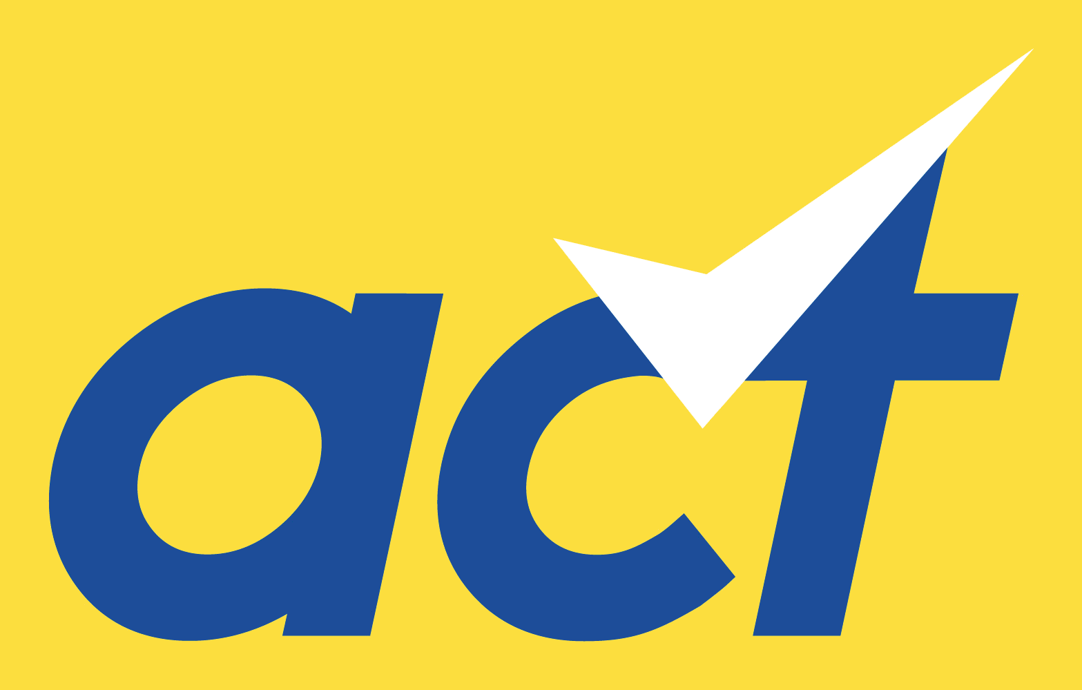 ACT New Zealand logo